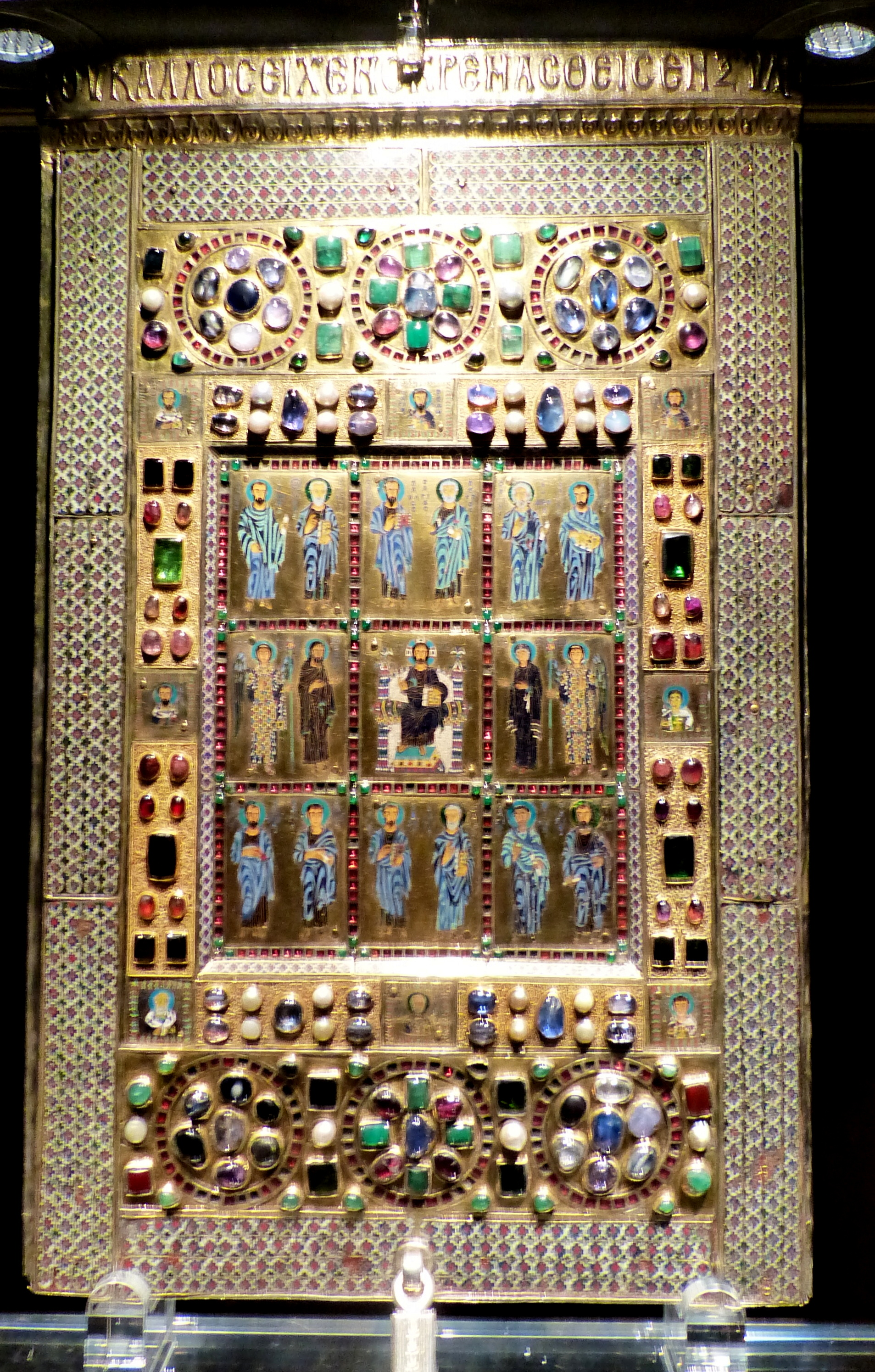 Limburger Staurothek; reliquiary of the True Cross, made in Constantinople,ca 960. � Cloisonné enamel, silver, silver–gilt, gold, pearls, gemstones (Cabochon)